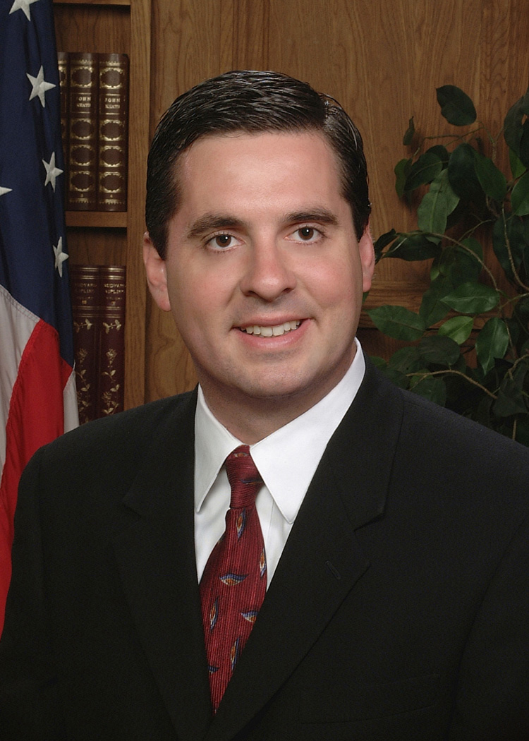 Devin Nunes, U.S. Representative from California